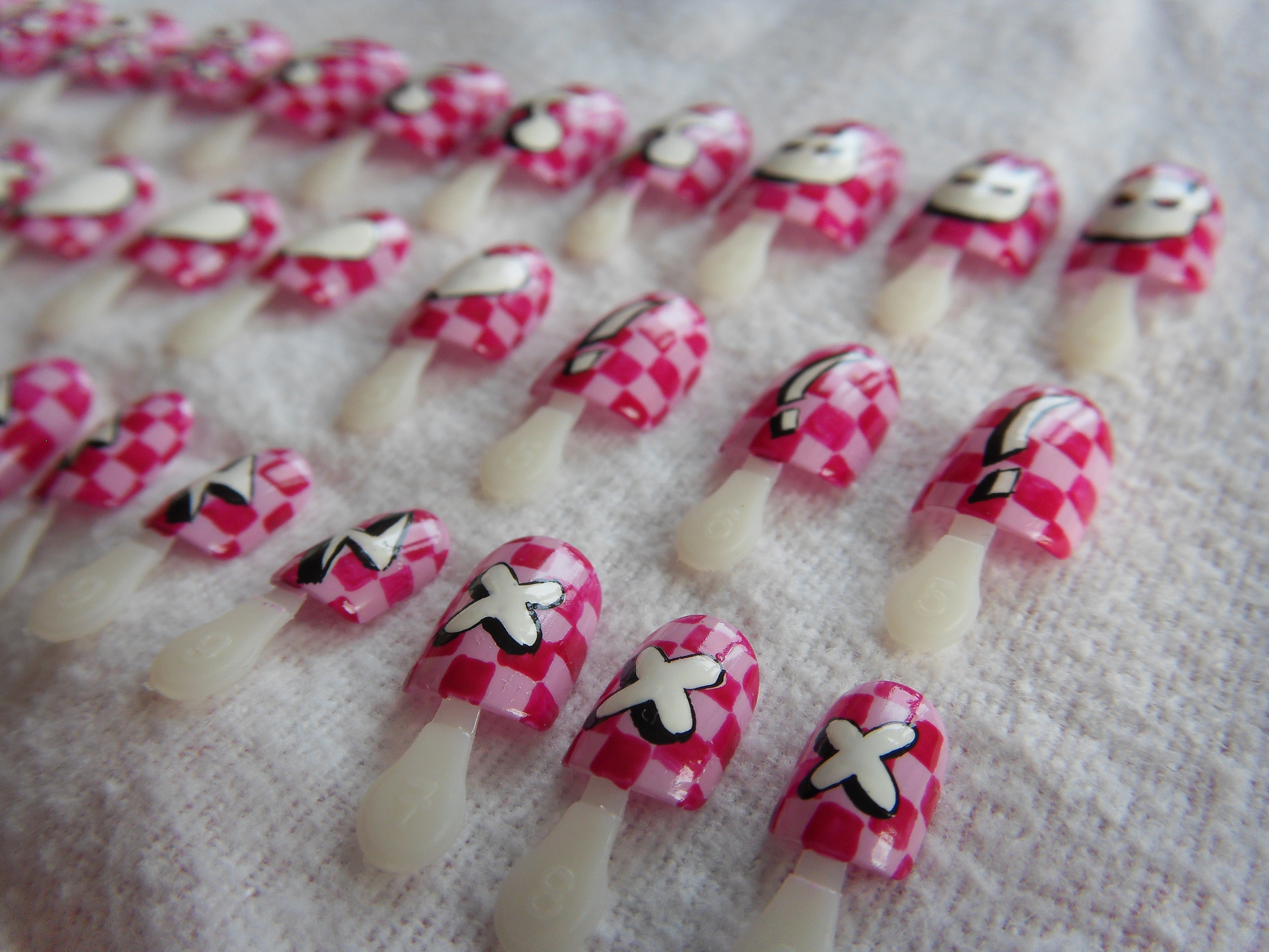 Check out Buzz Buzz on Facebook!